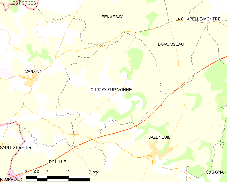 Map of French municipality Curzay-sur-Vonne